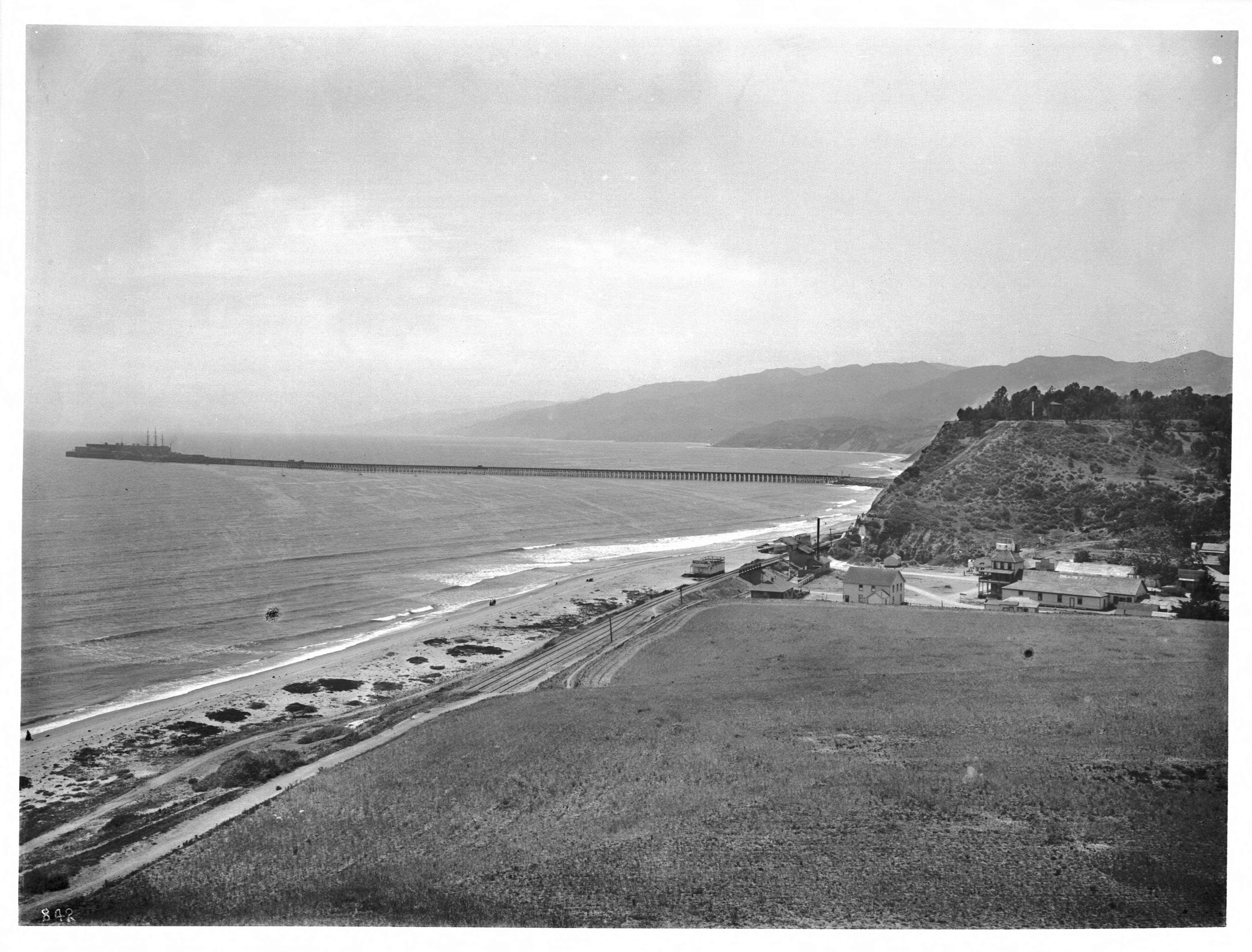 Santa Monica Canyon and Long Wharf of Port of Los Angeles, ca.1900 Photograph of Santa Monica Canyon and Long Wharf of Port of Los Angeles, ca.1900. The beach runs diagonally across the image. A few buildings are in the mouth of the canyon. The mountains along the Pacific coastline are visible in the distance. A long dock extends from the beach on the right to a large ship in the open ocean on the left. Call number: CHS-842 Filename: CHS-842 Coverage date: circa 1900 Part of collection: California Historical Society Collection, 1860-1960 Format: glass plate negatives Type: images Geographic subject (city or populated place): Pacific Palisades; Los Angeles Repository name: USC Libraries Special Collections Accession number: 842 Microfiche number: 1-54- Archival file: chs_Volume41/CHS-842.tiff Part of subcollection: Title Insurance and Trust, and C.C. Pierce Photography Collection, 1860-1960 Repository address: Doheny Memorial Library, Los Angeles, CA 90089-0189 Geographic subject (country): USA Format (aacr2): 1 photograph : glass photonegative, b&w ; 17 x 22 cm. Rights: Digitally reproduced by the USC Digital Library; From the California Historical Society Collection at the University of Southern California Subject (adlf): beaches Project: USC Repository Contributing entity: California Historical Society Date created: circa 1900 Publisher (of the digital version): University of Southern California. Libraries Format (aat): photographs Geographic subject (state): California Subject (file heading): Los Angeles City -- Pacific Palisades Legacy record ID: chs-m3463; USC-1-1-1-3537 Access conditions: Send requests to address or e-mail given. Phone (213) 821-2366; fax (213) 740-2343. Geographic subject (county): Los Angeles Subject (lcsh): Piers; Beaches Subject: Santa Monica; Santa Monica (LA) -- Santa Monica Canyon